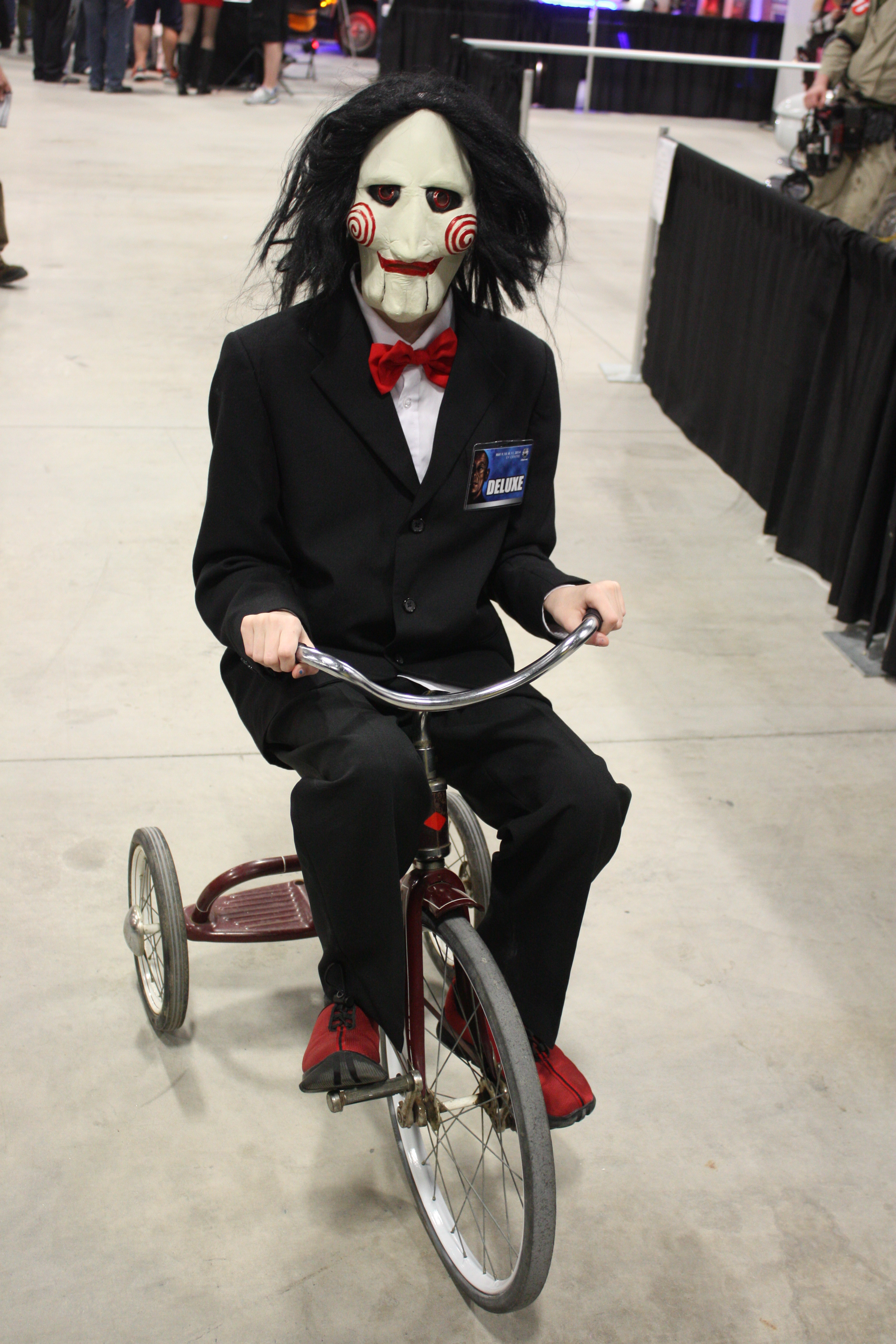 Ottawa Comiccon 2014: Billy the Jigsaw Puppet on tricycle